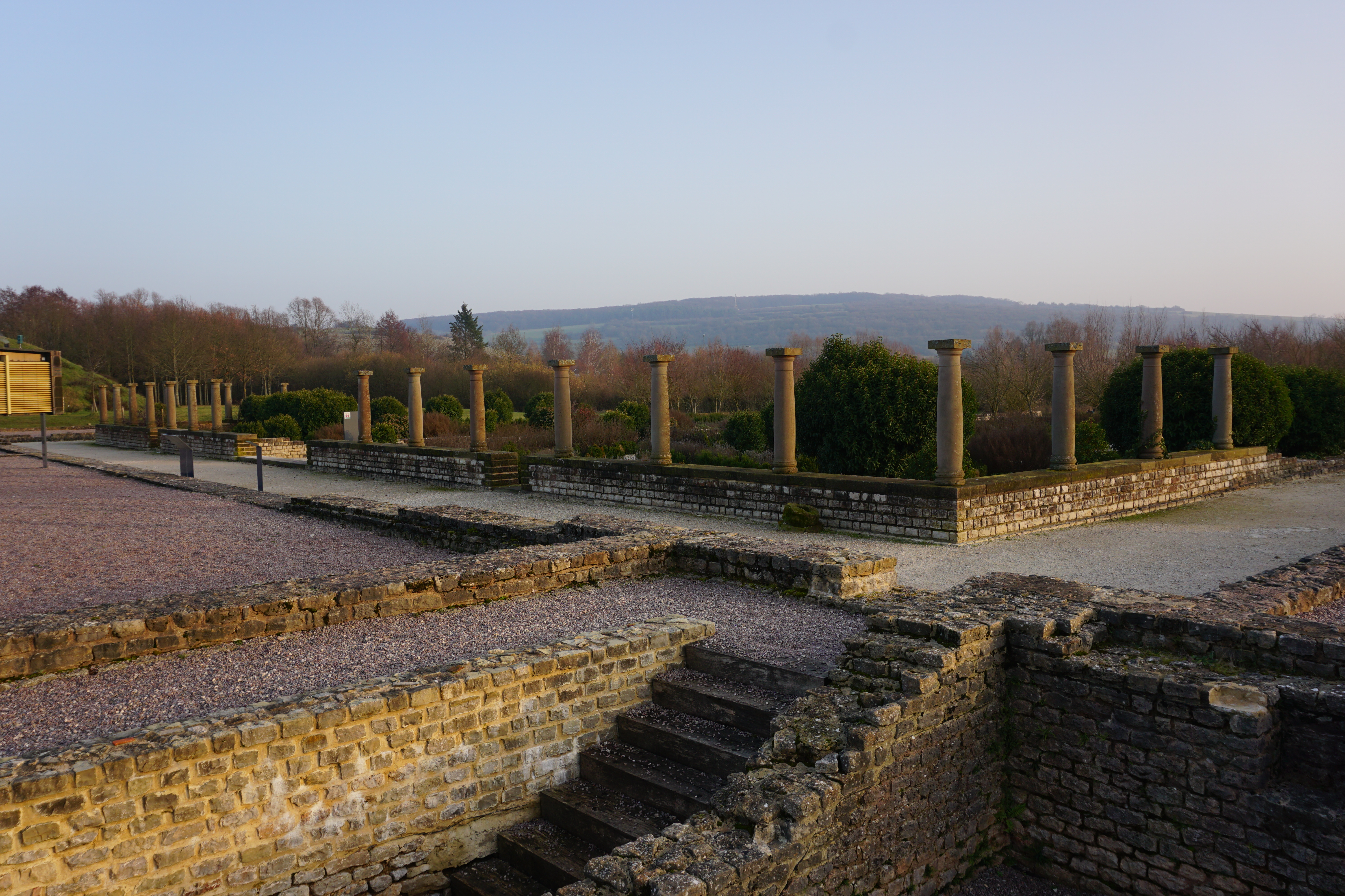 The Porticus on the south side of the main building of the Roman villa of Reinheim and part of the ornamental garden behind it. The columns are reconstructions.